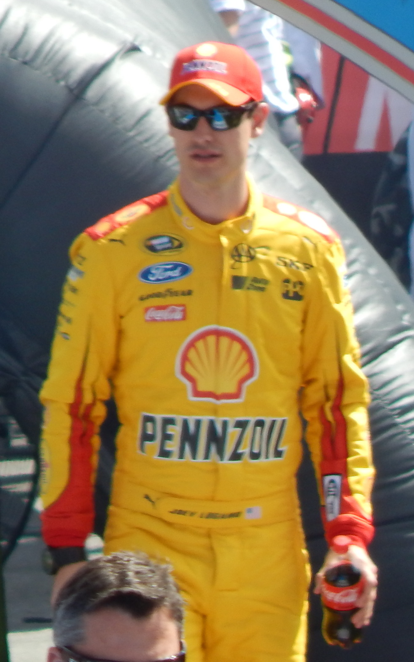 Joey Logano being introduced at Daytona International Speedway.